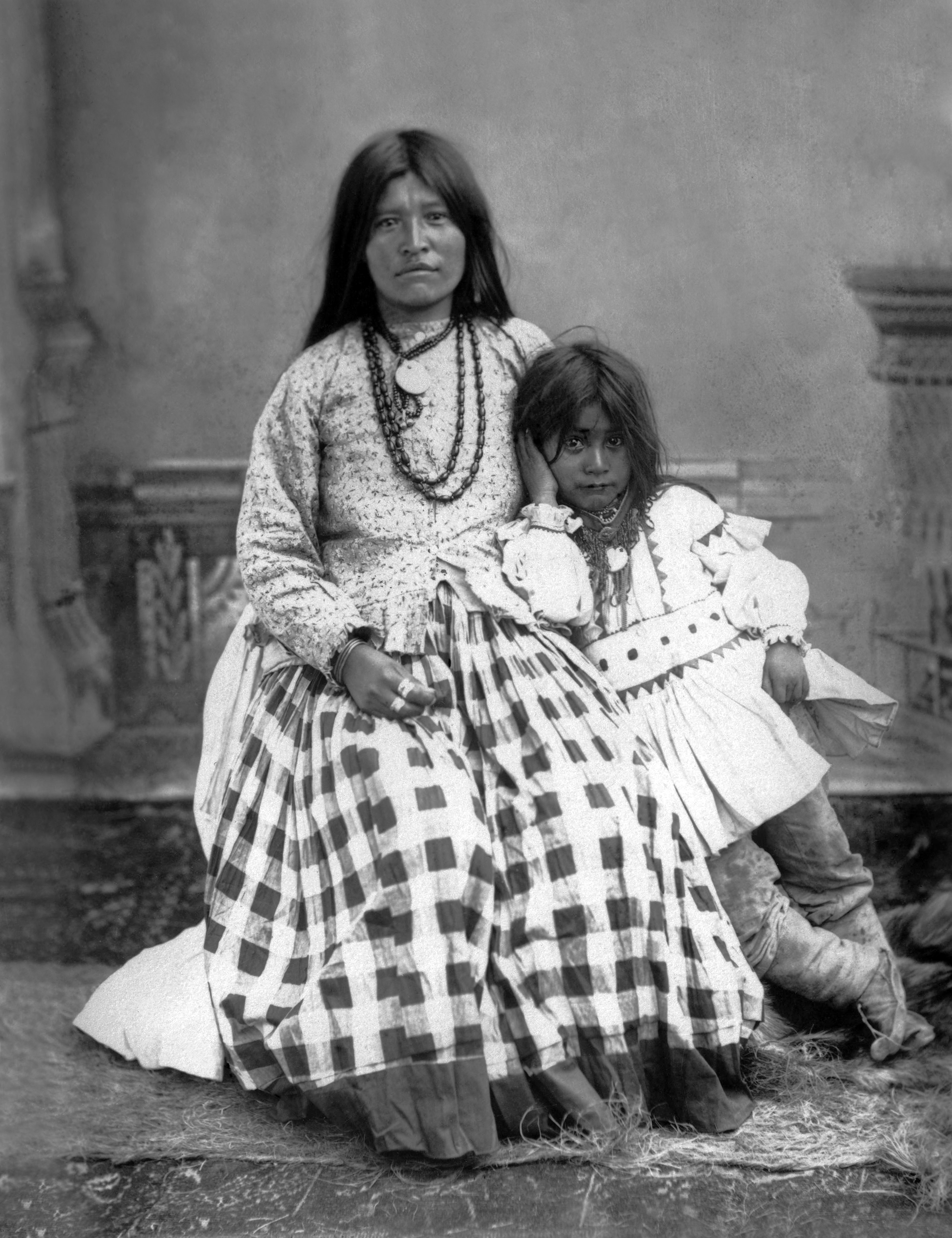 Studio portrait (sitting and standing) of Ta-ayz-slath (Early Morning), Geronimo's wife, and his son, Native American (Chiricahua Apache) woman and boy. She wears beaded necklaces.